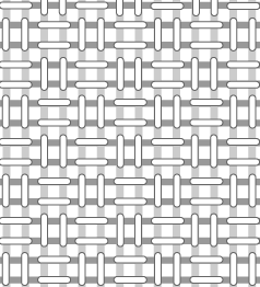 Detail of a diagram of the structure of a balanced "basketweave" textile.